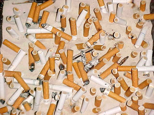 Ashtray outside of Potomac Hall at James Madison University, filled with cigarette butts.